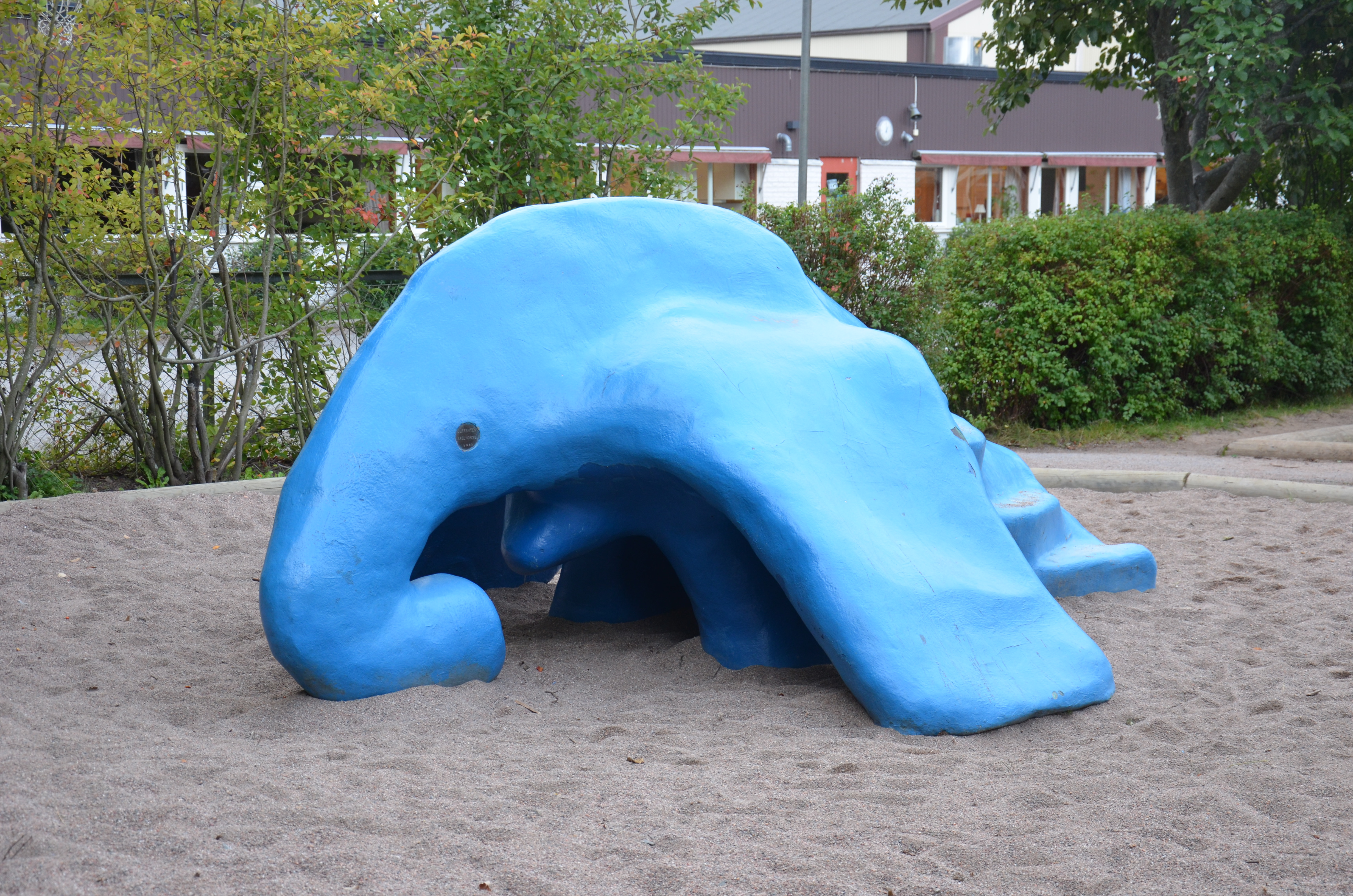 Axel Nordells Elefanten, glasfiberarmerad plast, Erikslundsskolan i Täby